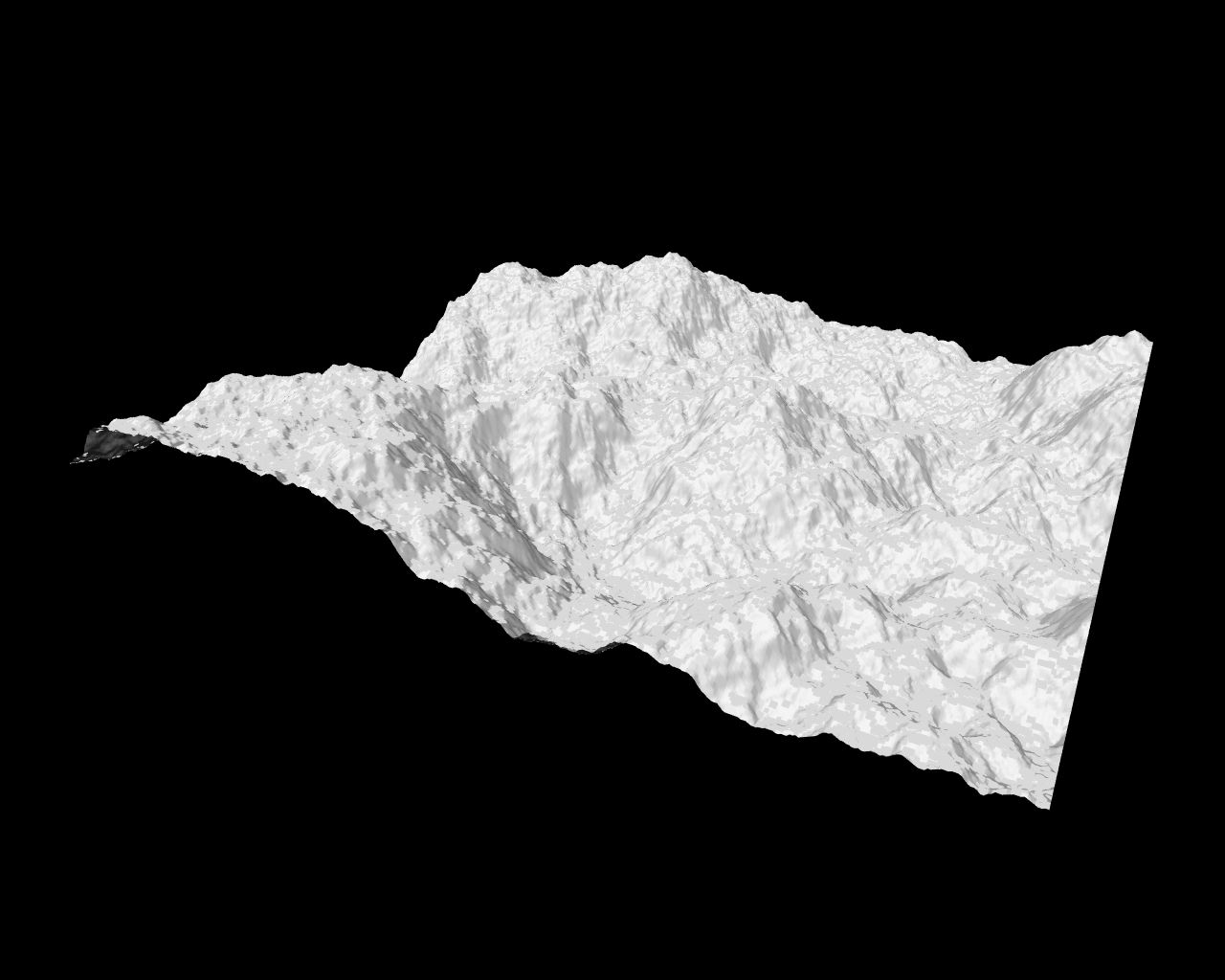 A terrain made using Perlin noise. It was made by "leveling" this image - the brighter the shade of gray on the 2D function, the higher the terrain on the 3D function (this image).